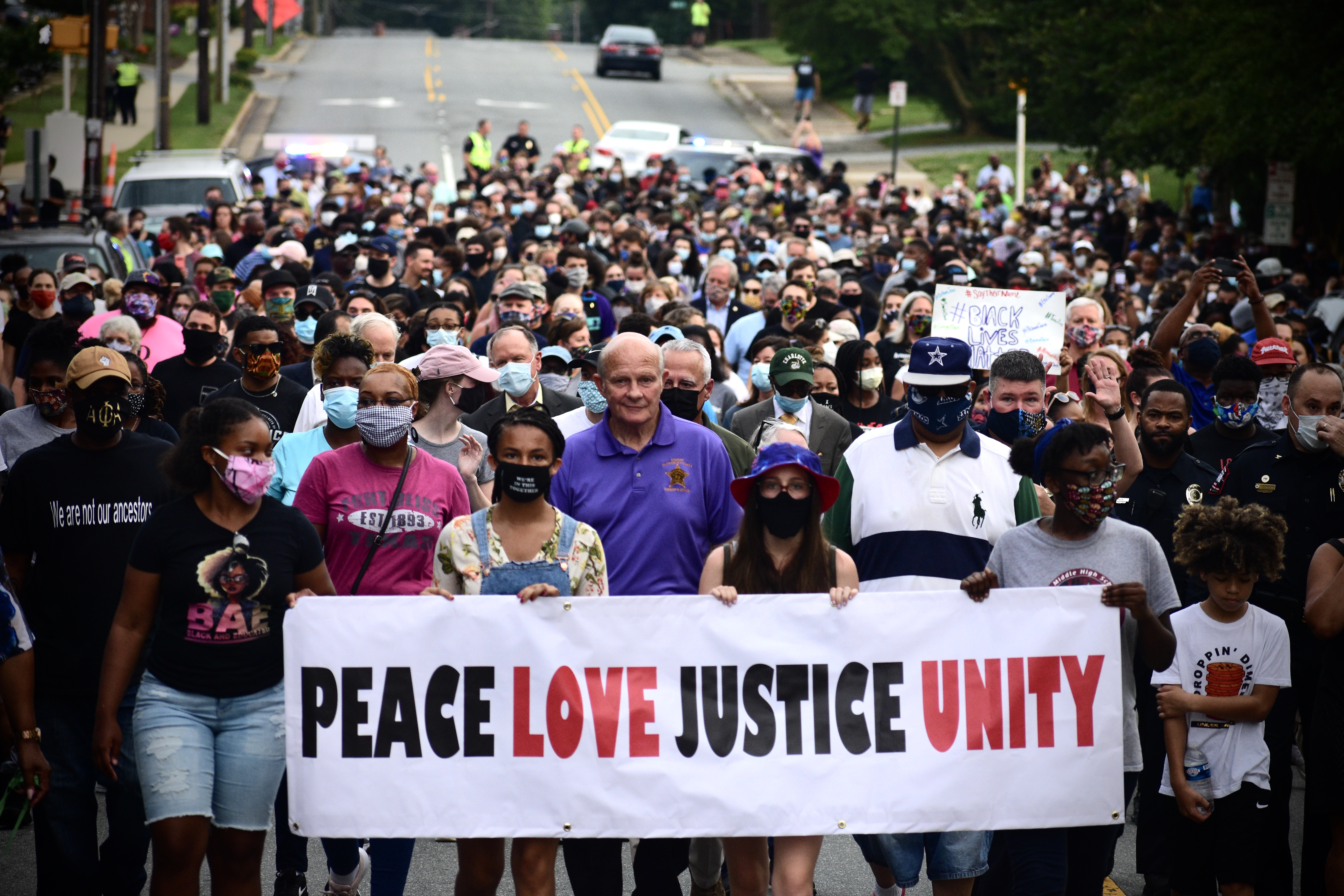 Alamance County Unity March (2020 June)